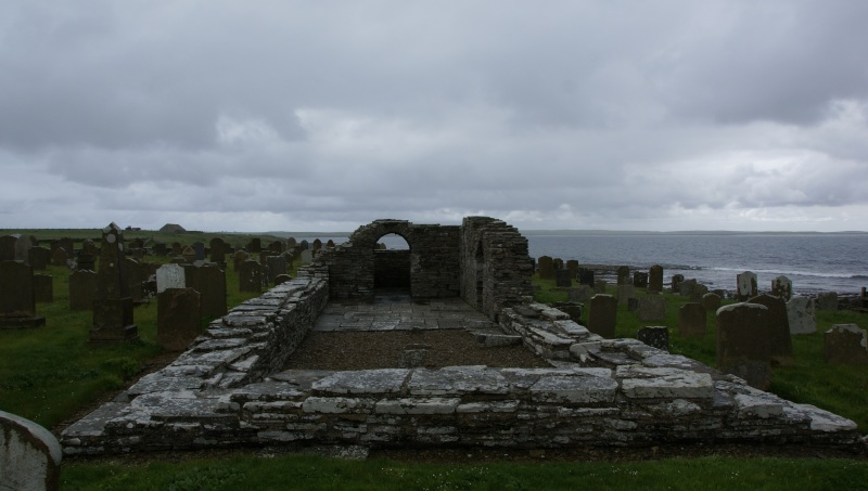 Westside Church, Tuquoy, Westray, Orkney, Scotland. View from west.